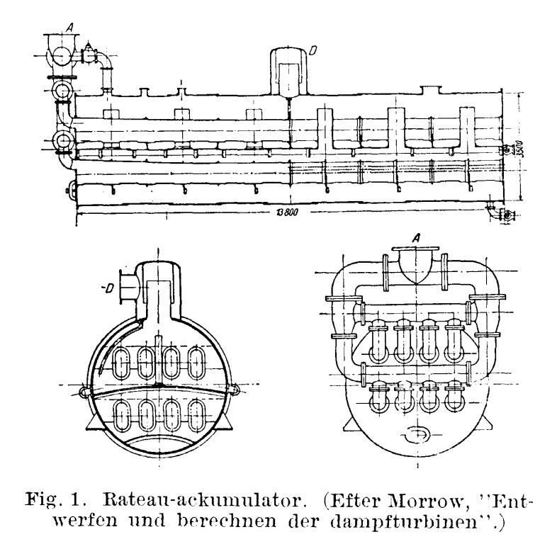 Rateau's steam accumulator